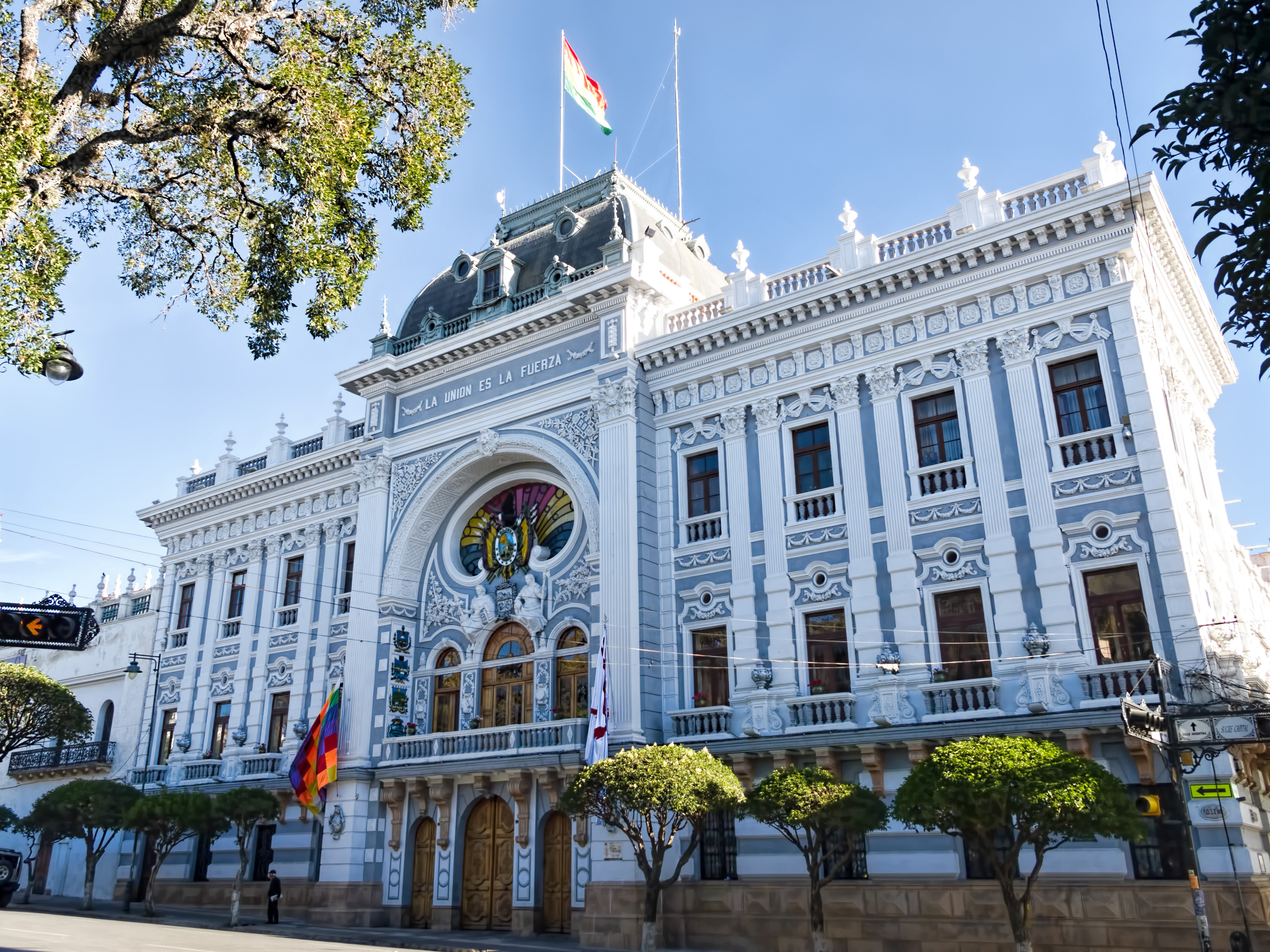 The state government building (Sucre is the capital of Chuquisaca Department) was originally the Palace of Government of Bolivia when it was completed in 1896, but then the government moved to La Paz in 1898. On the roof flies the Bolivian flag of red, yellow, and green stripes which are repeated (except for blue instead of green) in the colored-glass window surrounding the Bolivian coat of arms at the top of the entrance arch. The flags flanking the entrance are the Wiphala flag of multi-colored squares representing native peoples of the Andes and the Chuquisaca Department flag of a Cross of Burgundy with a golden crown in the center. Sucre (elev. 2,810m/9,214ft) was founded by the Spanish in 1538 as Ciudad de la Plata de la Nueva Toledo (Silver City of New Toledo). It became the judicial, religious, and cultural center of the region. Bolivia achieved independence from Spain on 6 August 1825, the last country in Latin America to do so. In 1839 the city was declared the capital of Bolivia and renamed in honor of Antonio José de Sucre (1795-1830), a leader of the fight for independence who was a close friend of Simón Bolívar and served as the second president of Bolivia from the end of 1825 to 1828. (The administrative capital of Bolivia shifted to La Paz in 1898.) The Historic City of Sucre was declared a UNESCO World Heritage Site in 1991. On Google Earth: Prefectura de Chuquisaca 19° 2'53.52"S, 65°15'37.22"W